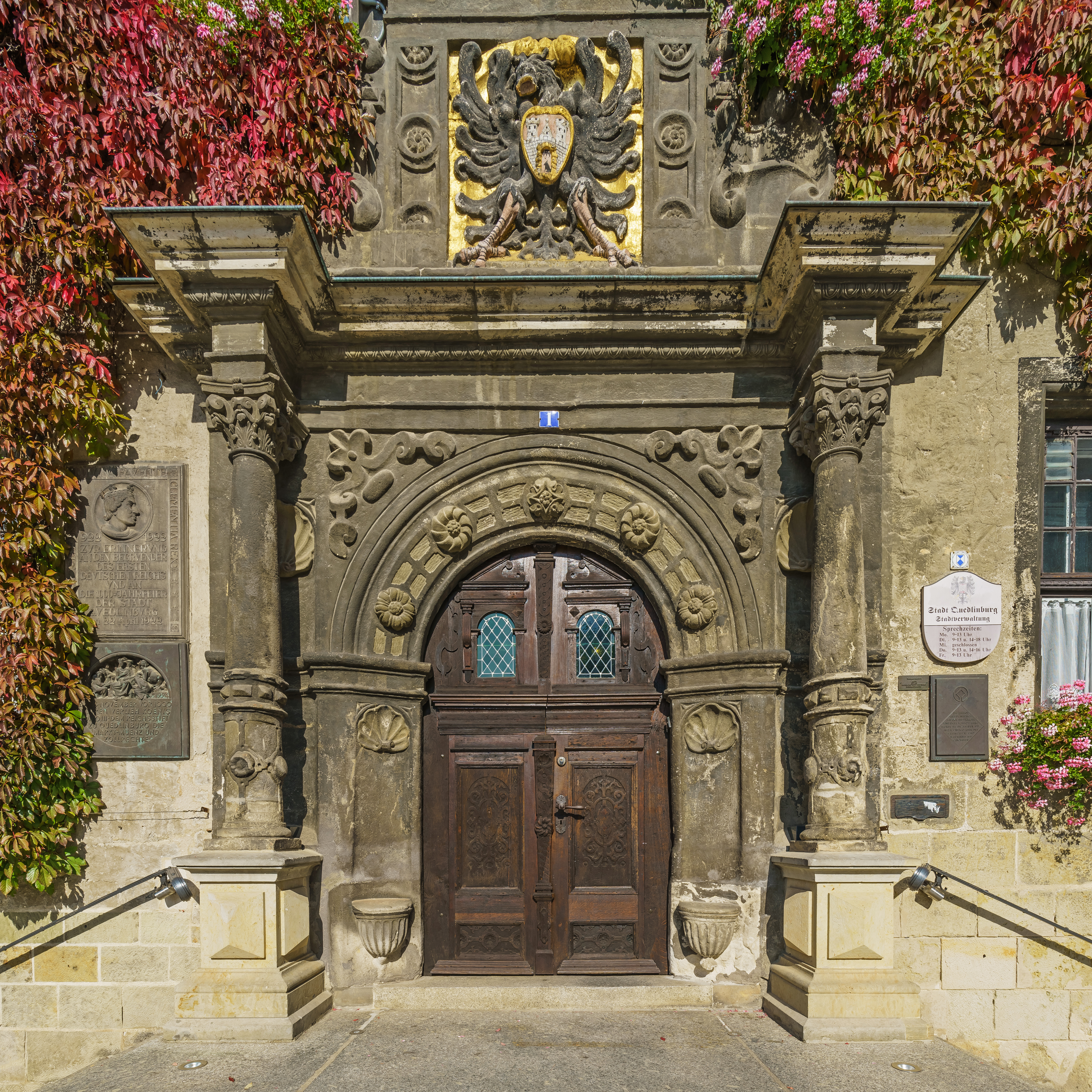 Town Hall in Quedlinburg, Germany